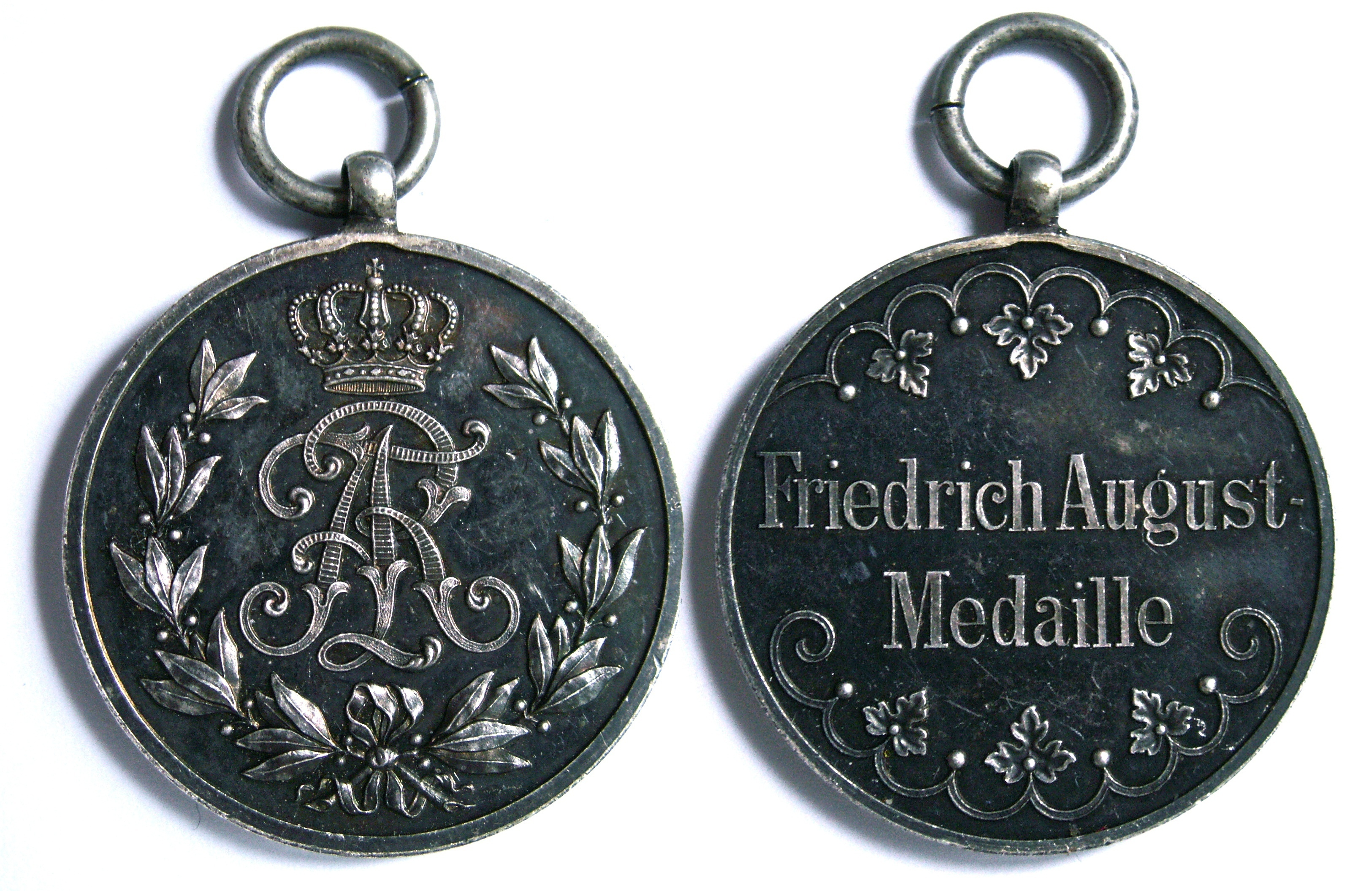 Friedrich-August-Medaille, Saxony, Medal in Silver. Property of Hofer Antikschmuck, Berlin (Germany)